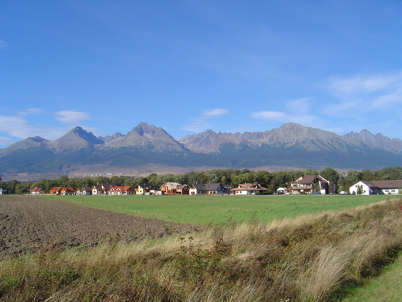 Batizovce under High Tatras